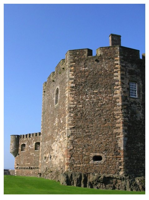 Blackness Castle South East View